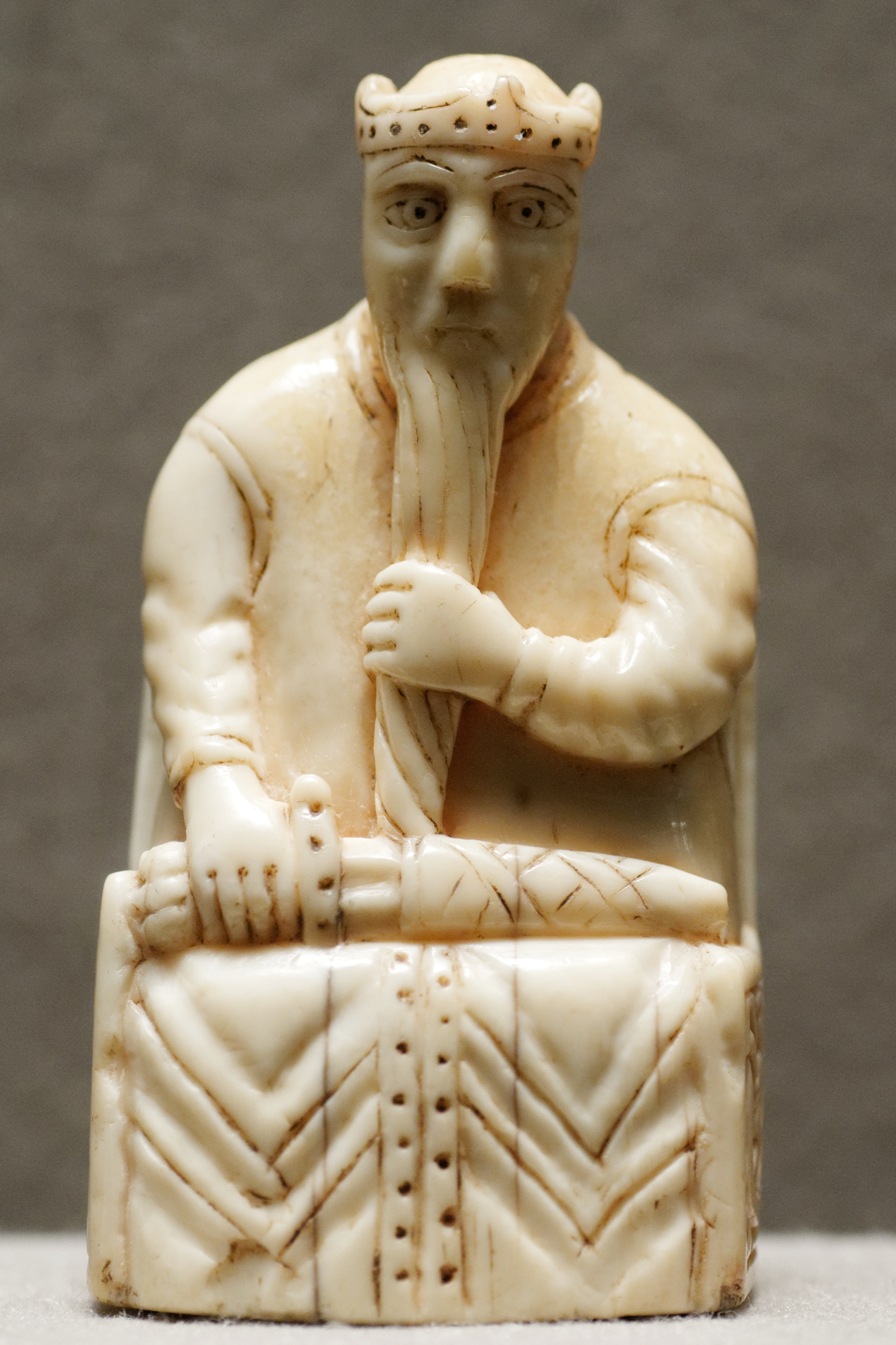 King chess piece, Norwegian work.